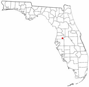 Adapted from Wikipedia's FL county contributed maps by Seth Ilys.